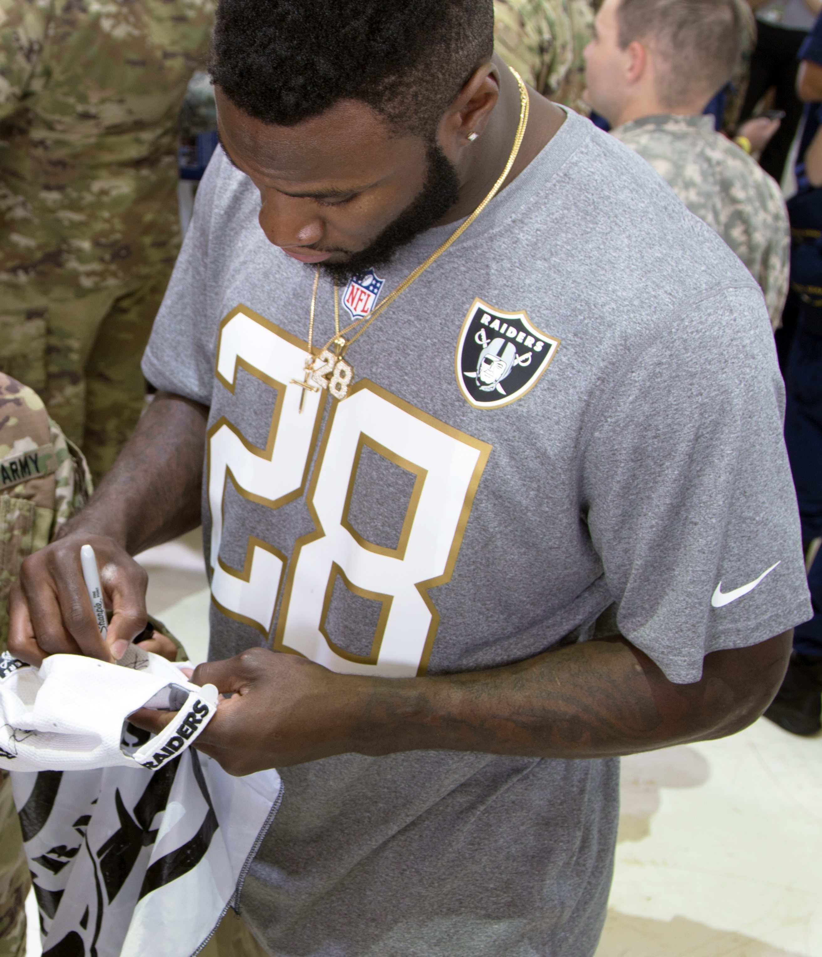 Oakland Raider running back Latavius Murray autographs a hat for a Soldier during the 2016 Pro Bowl Draft show at Wheeler Army Airfield, Hawaii, Jan. 27.